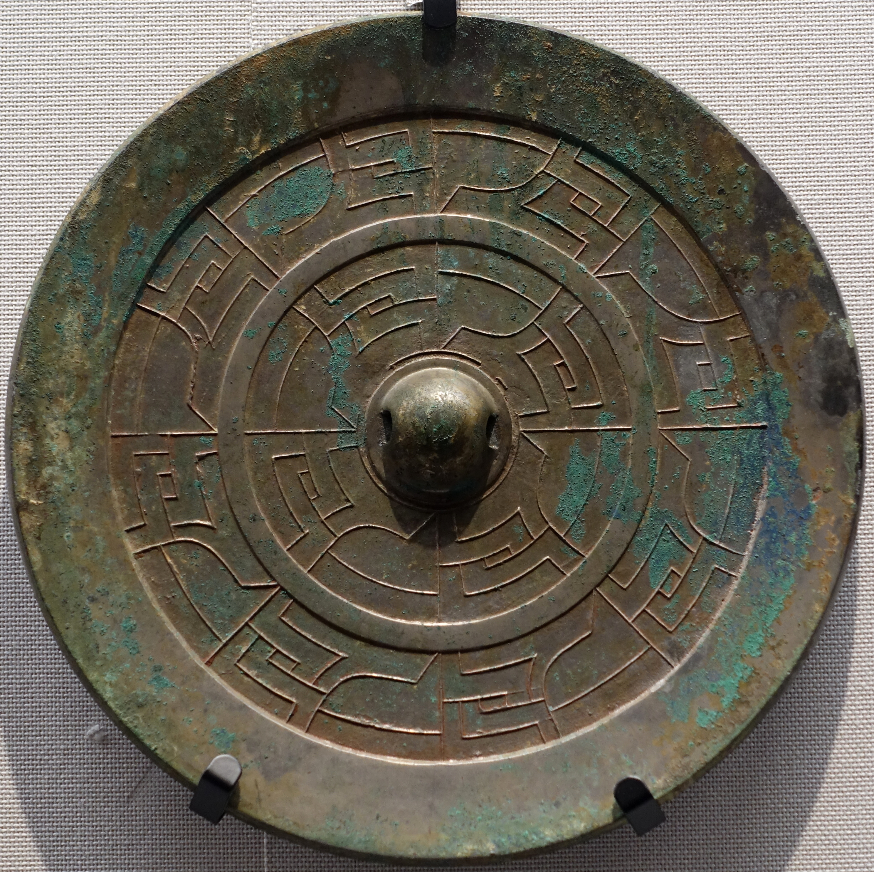 Exhibit in the Tokyo National Museum, Tokyo, Japan. This work is old enough so that it is in the public domain.